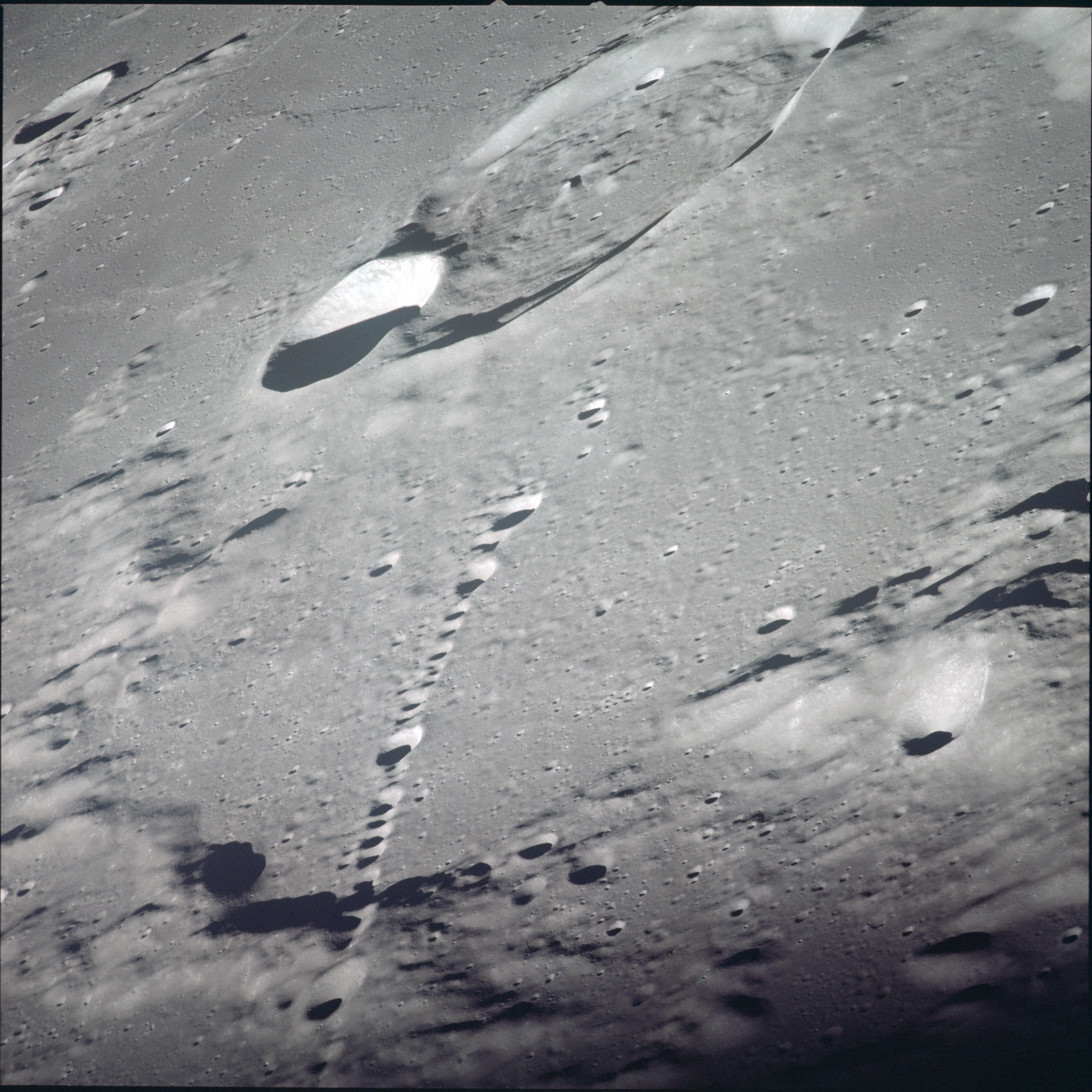 Description: This image from the Apollo 12 mission shows the Catena Davy crater chain in the foreground and Davy crater at the top. Photo number AS12-51-7485. [1] Size: 3900 x 3900 pixels (new upload) AS12-51-7485 at L&PI